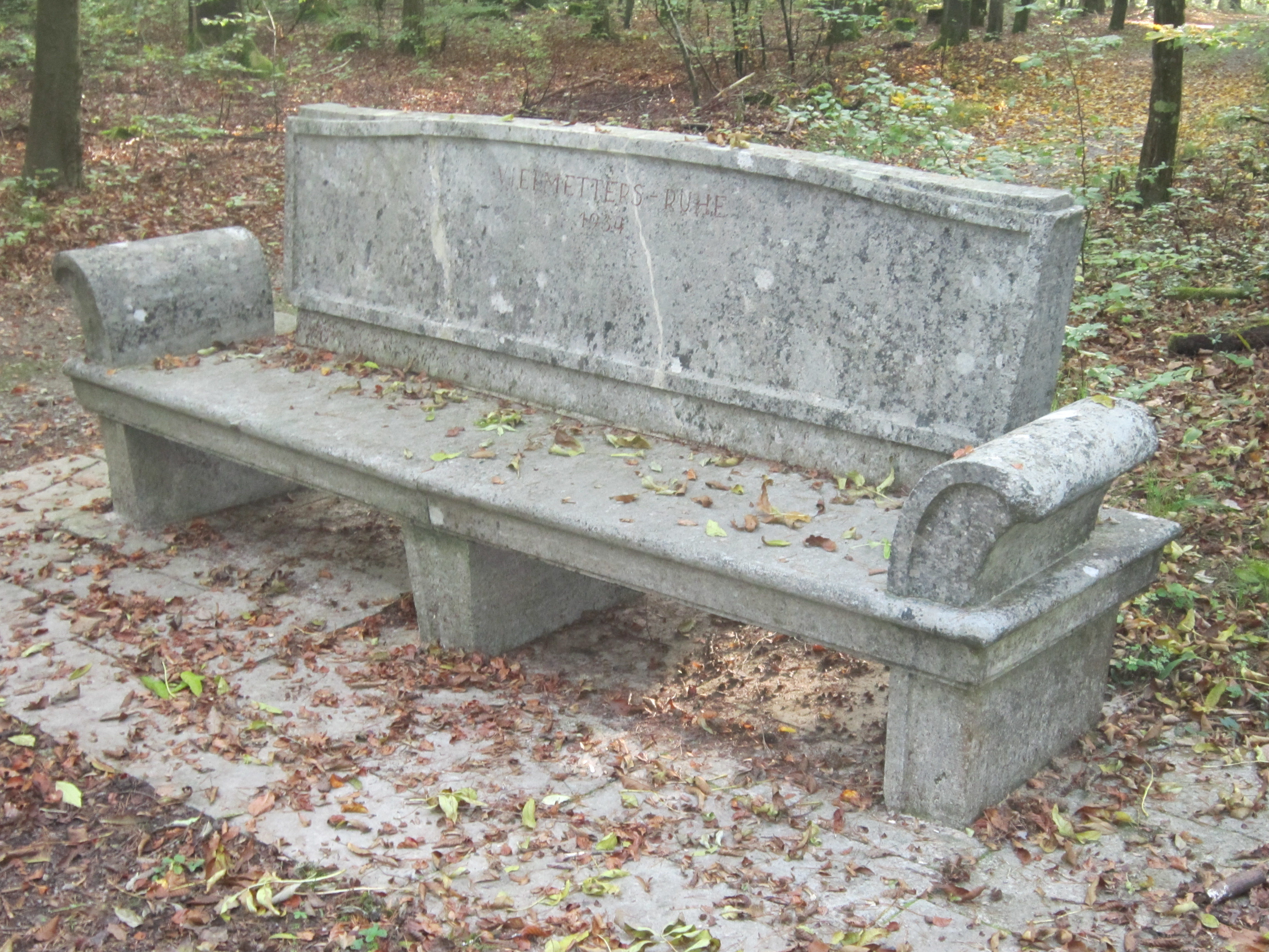 The "Vielmetters Ruh", a stone bench in the urban forest of the German spa town of Bad Kissingen in Lower Franconia (Bavaria).